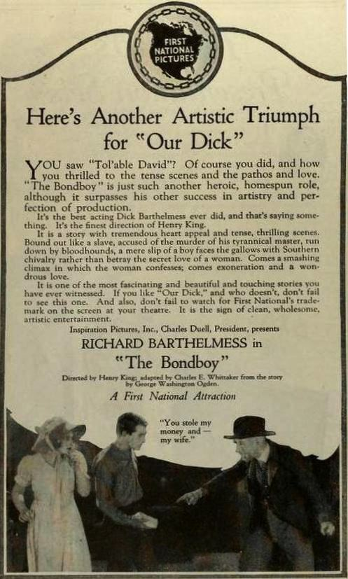 Ad for the 1922 American film The Bond Boy, page 106 of the December 1922 Photoplay.